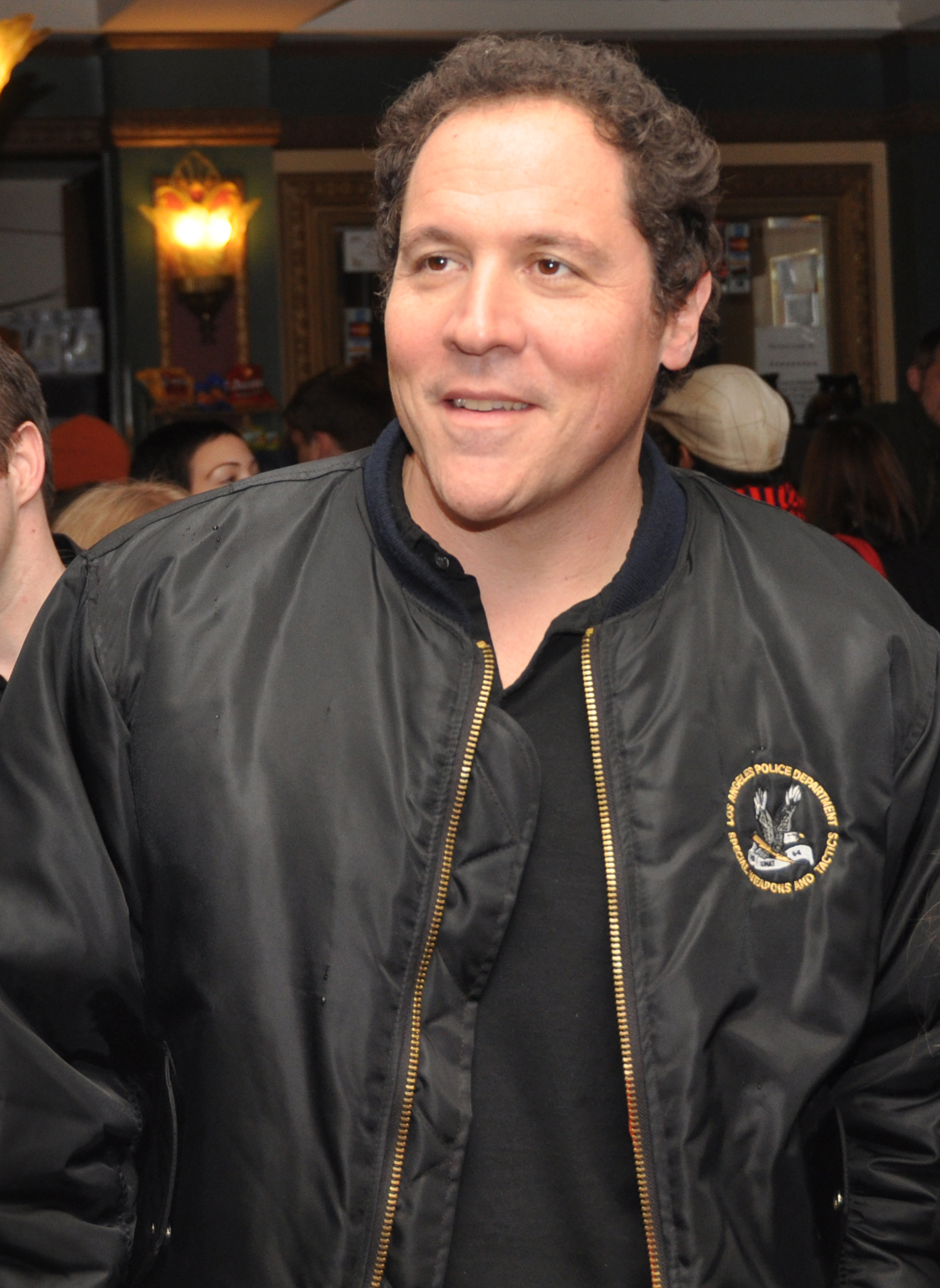 Jon Favreau at the Austin, TX premiere of I Love You, Man